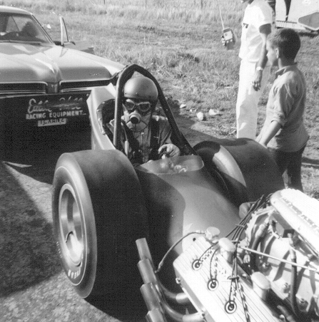 Eddie Hill, Wichita Falls 1966. Eddie enjoyed a long, successful career racing Top Fuel dragsters, motorcycles and boats. He earned 12 National Championships, he once held simultaneous Top Speed records in 4 different boat racing associations, is the only racer in history to hold the Top Speed record on land and water at the same time, he was the first drag racer into the 4 second zone (4.990 in 1988), and was the 1993 NHRA Top Fuel Champion. Not bad.Eddie Hill